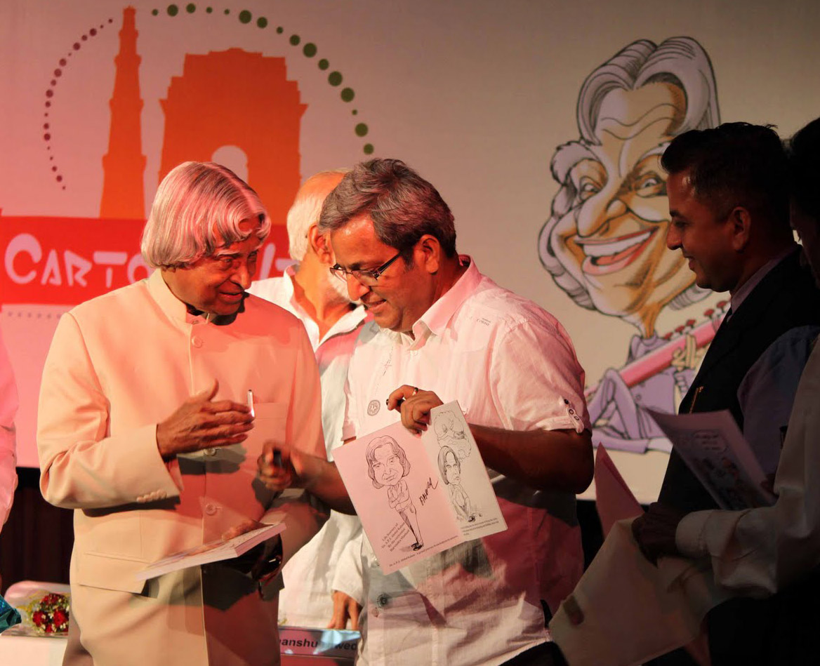 Harvinder Mankkar with Dr. APJ Abdul Kalam